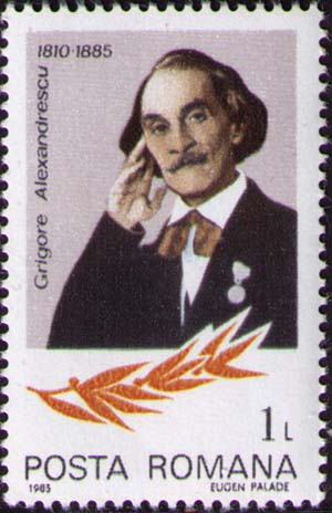 1985 Romanian Post, 1 leu, multicoloured, representing Grigore Alexandrescu; Series:Famous personalities; Design: Eugen Palade